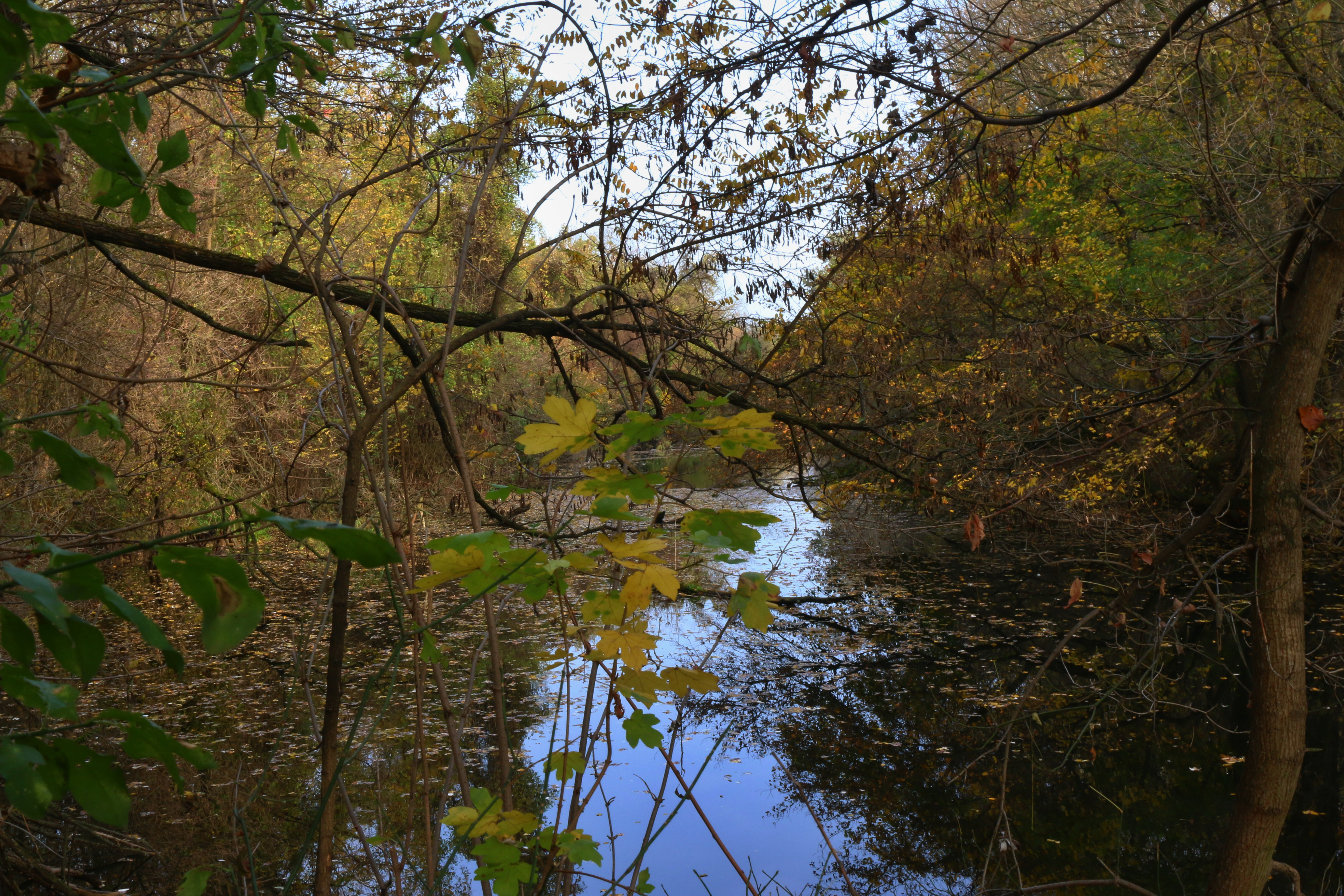 Biskupické rameno - river arm of Danube. Natural border of Kopáčsky ostrov the part of Protected landscape area Dunajské Luhy. Northern part.